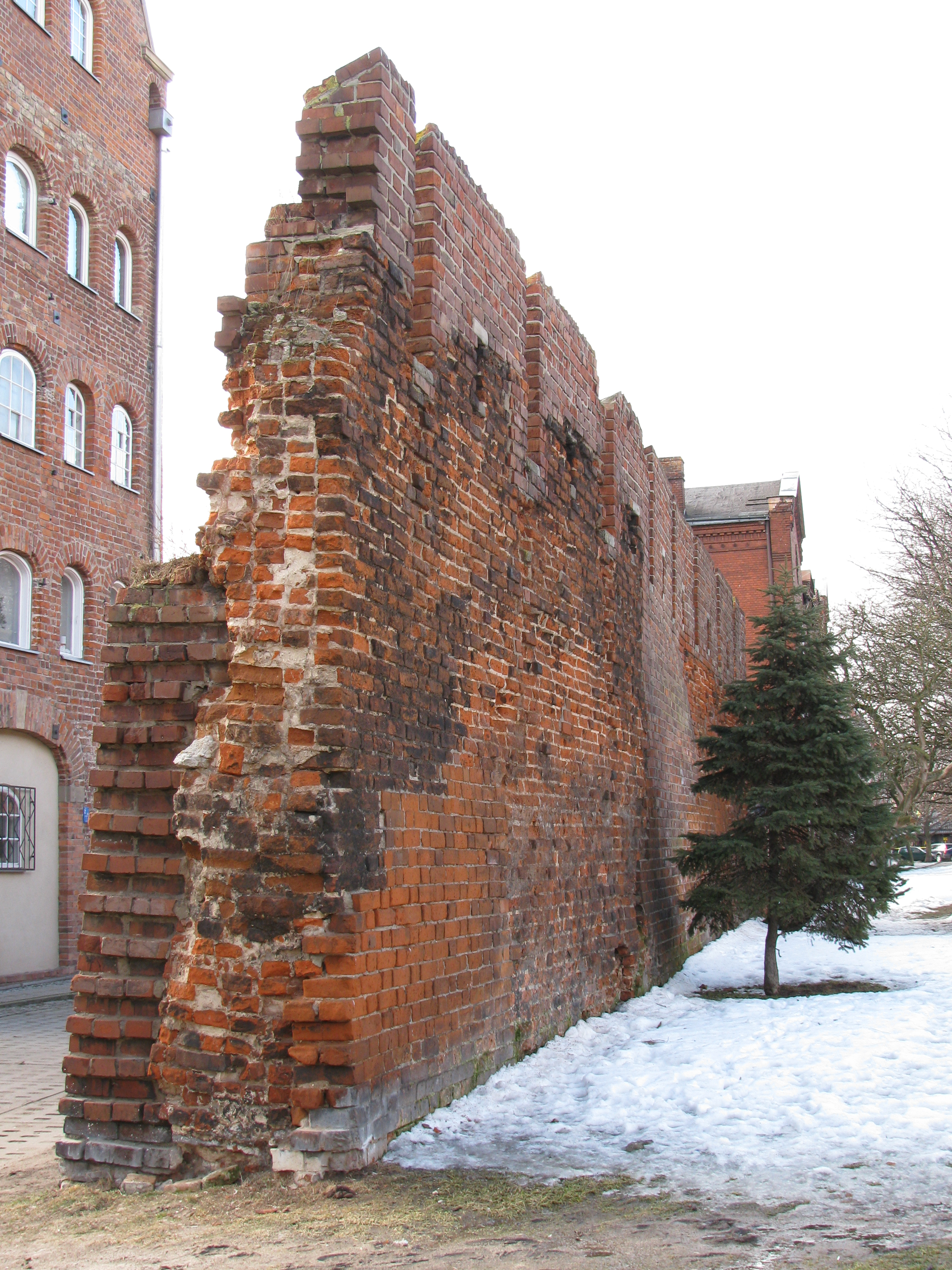 Middle Ages brick defensive walls of Gdansk, Poland.